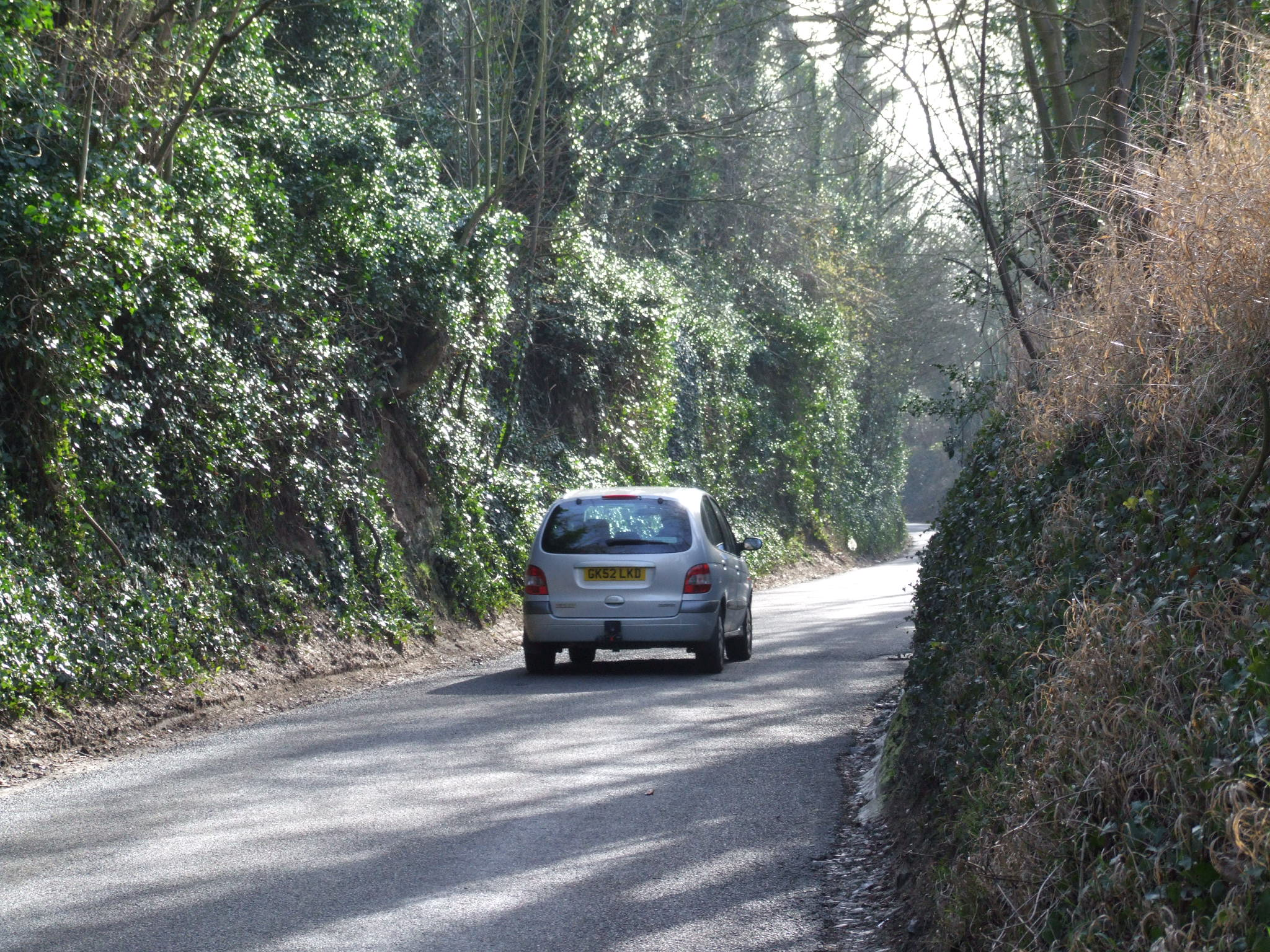 Hollow Lane, Canterbury, leads from Wincheap to the Roman road, Stone Street. Over the years, the road has cut down through the chalk to a depth of more than 10 feet in places. Looking south. See also Image:CanterburyHollowLane4400.JPG.